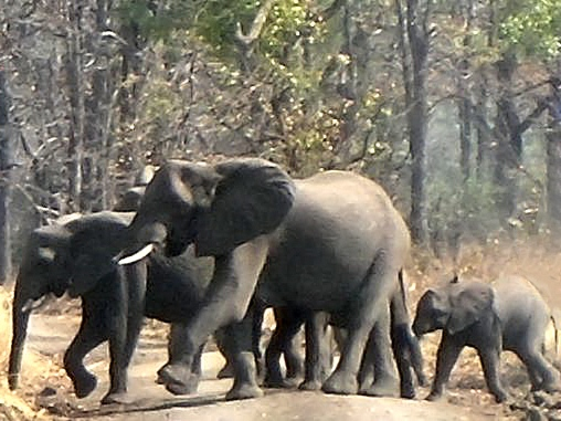 Elephant herd crossing a road in Liwonde National Park, Malawi, shortly after 8 AM local time